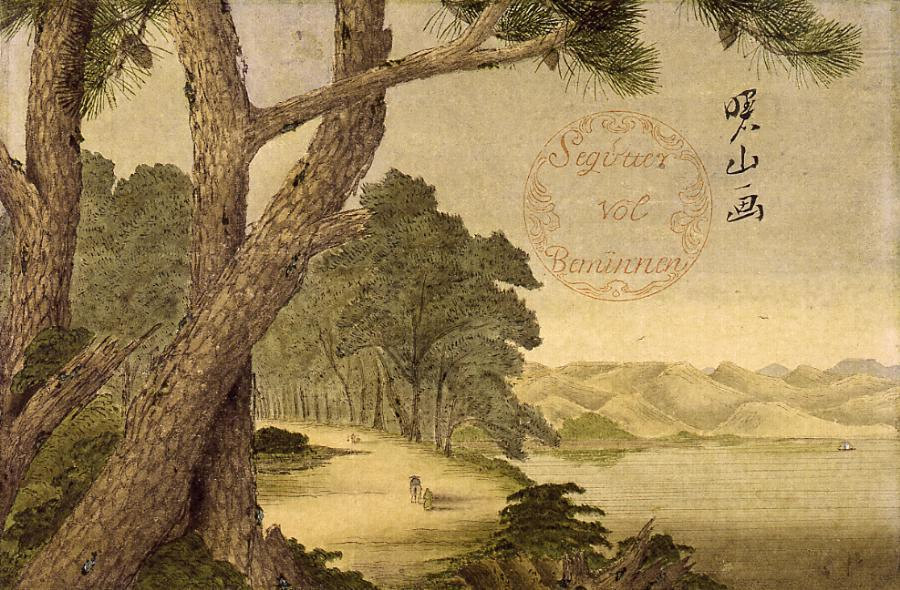 湖山風景図（The Lake and Mountain）絹本着色（Color on silk）